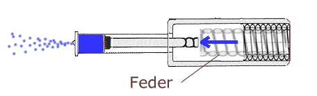 Needlefree injection